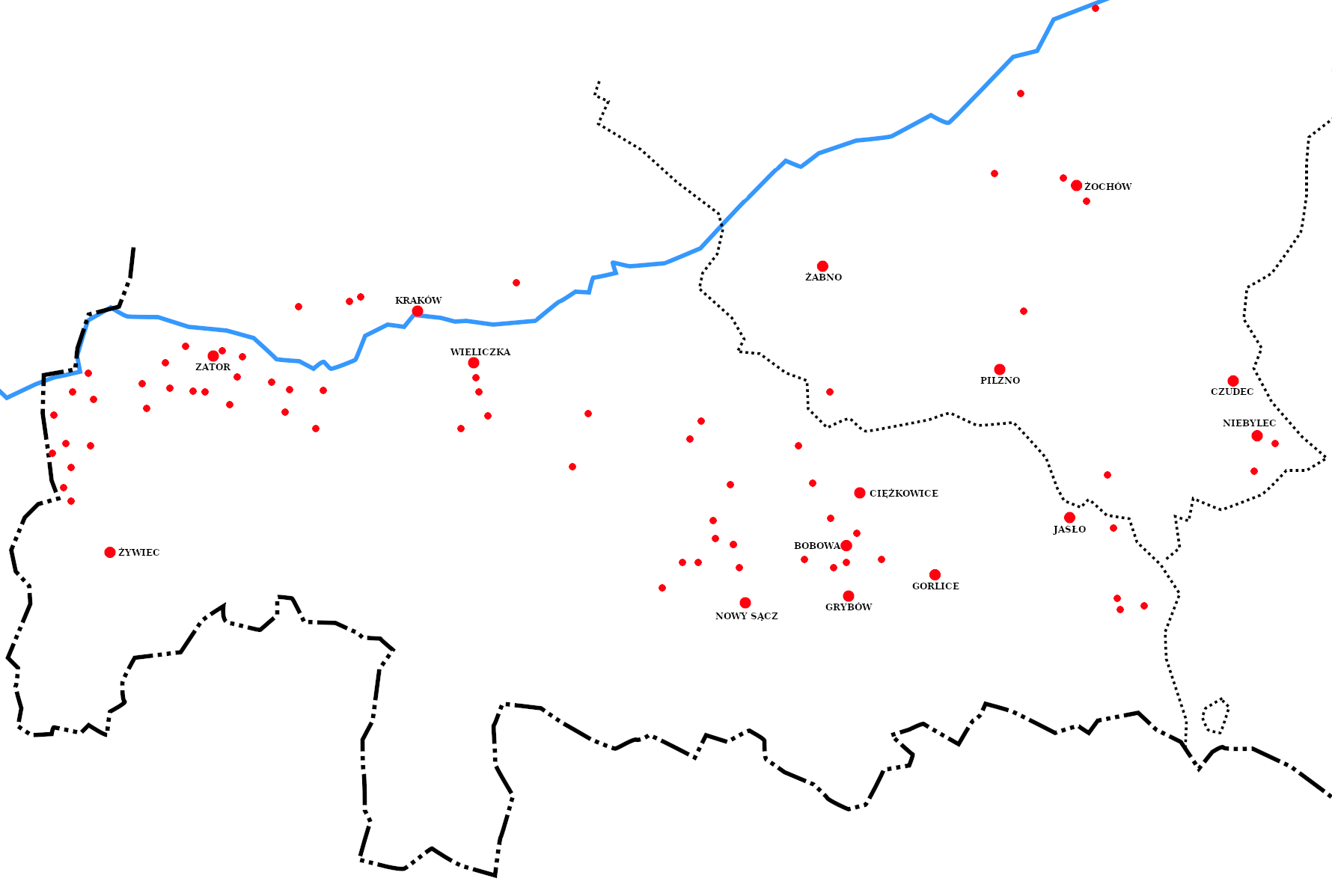 Protestant communities with own places of worship in the southern part of the Diocese of Kraków (later Galicia) around the year 1600; based on maps from